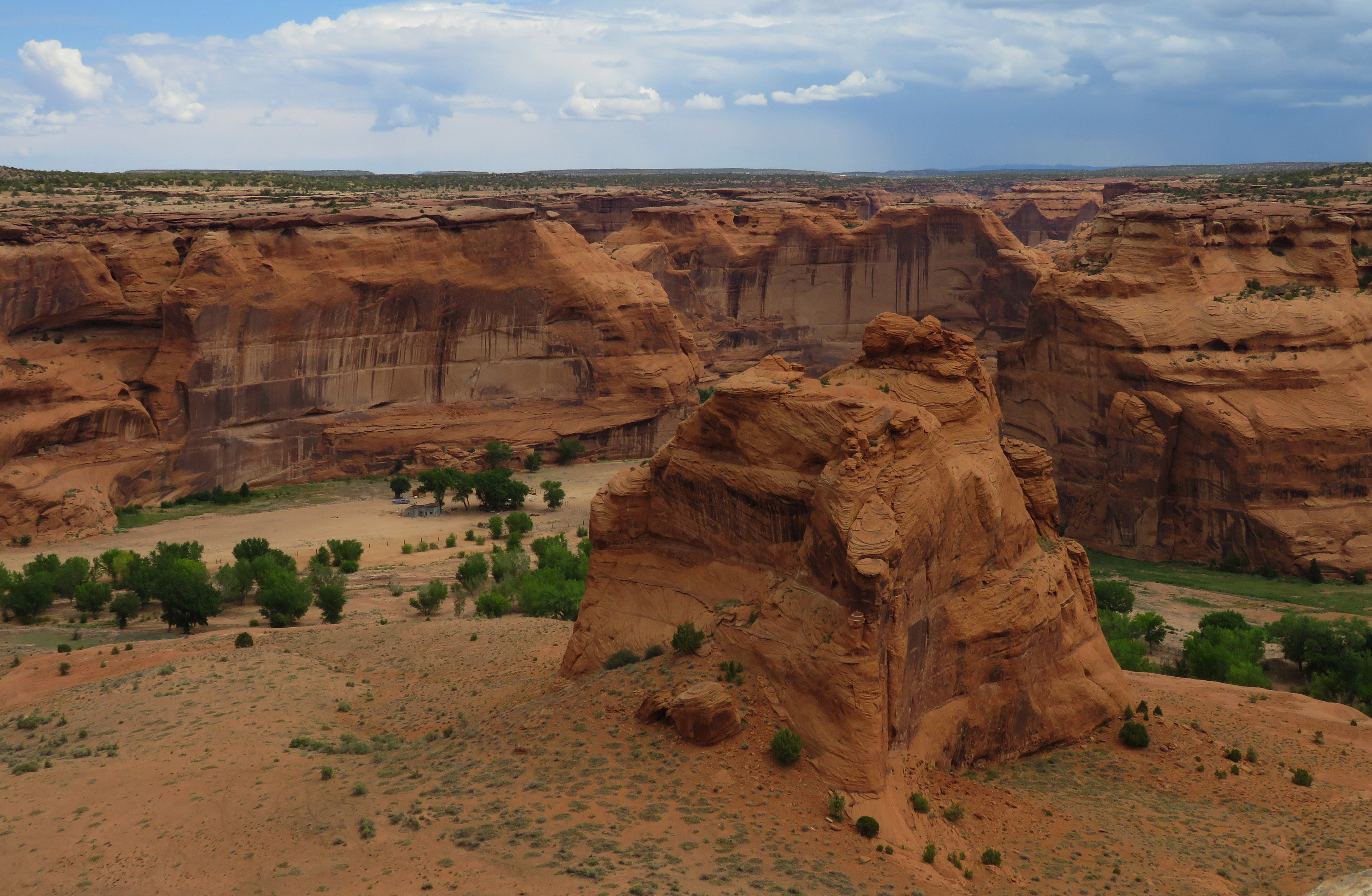 Canyon de Chelly is still inhabited by Navajo families who live among the ruins built by their ancestors. They home and farm in the canyon bottom during warm weather.